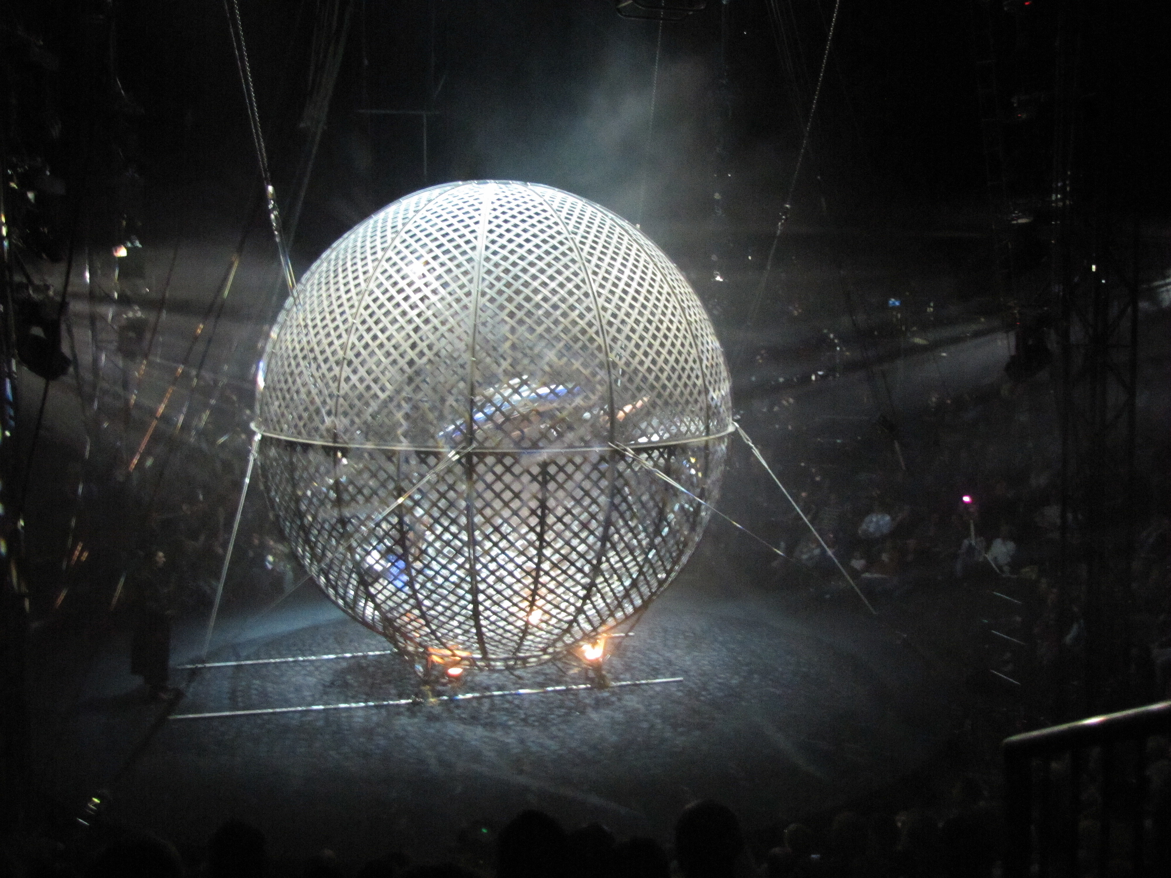 Globe of death performance, circus "Flic Flac", 2010 in Frankfurt am Main, Germany.